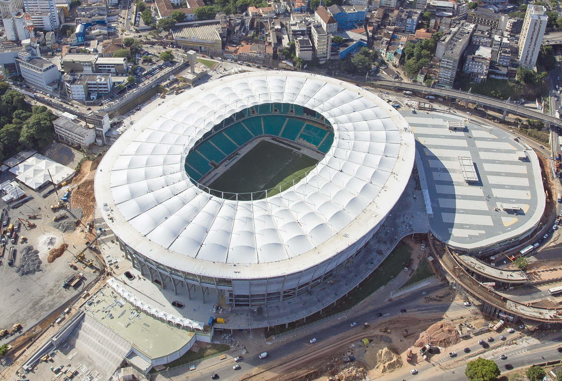 Derived from File:Itaipava Arena - March 2013.jpg